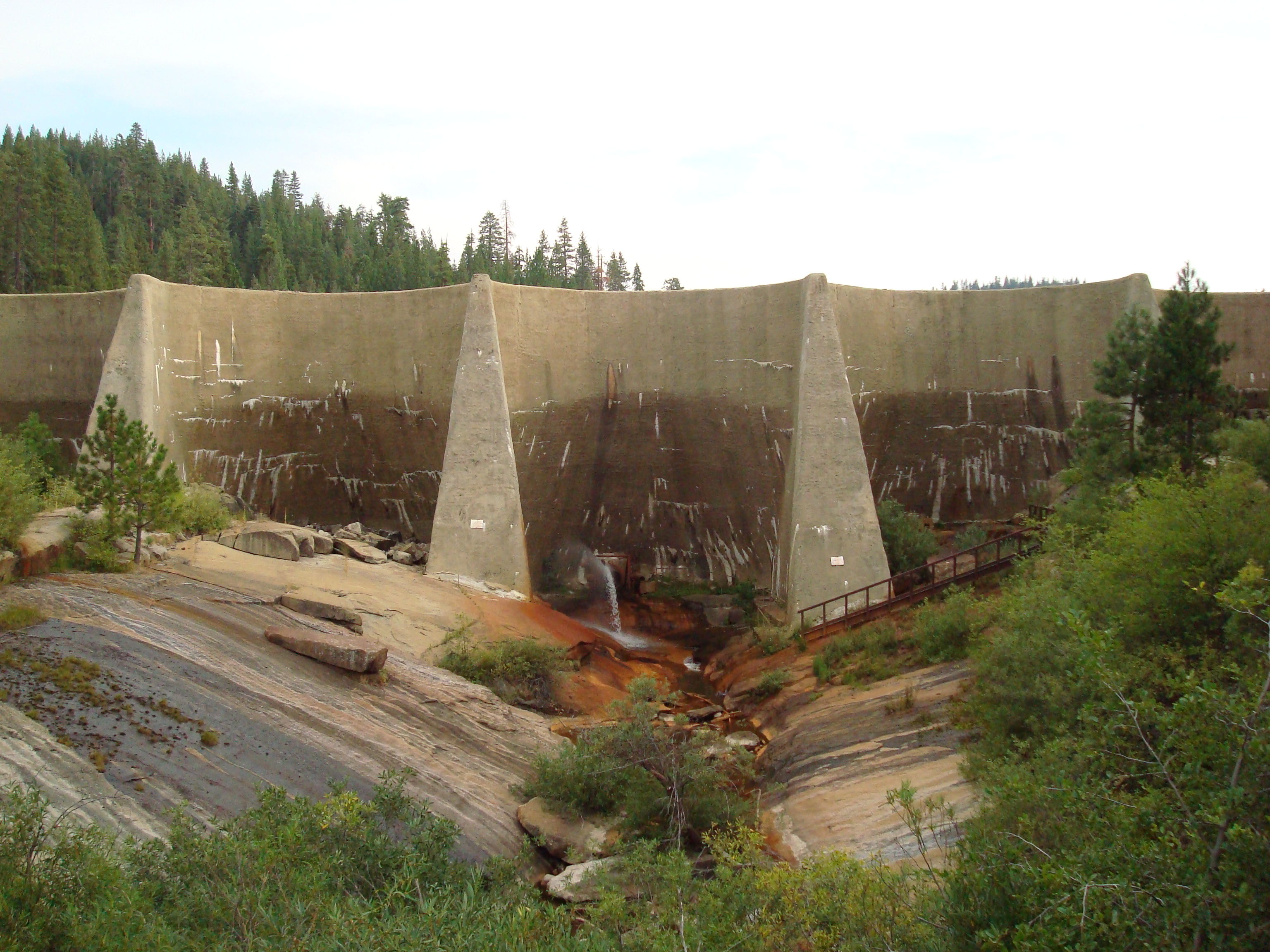 View of Hume Lake dam structure